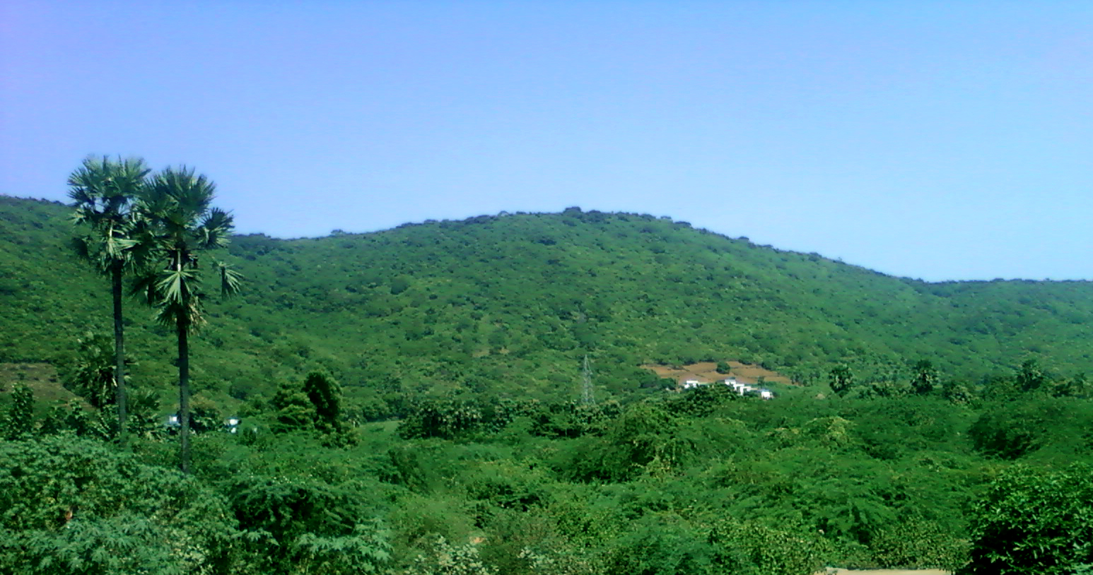 Landscape view of Eastern Ghats at Tuni, East Godavari